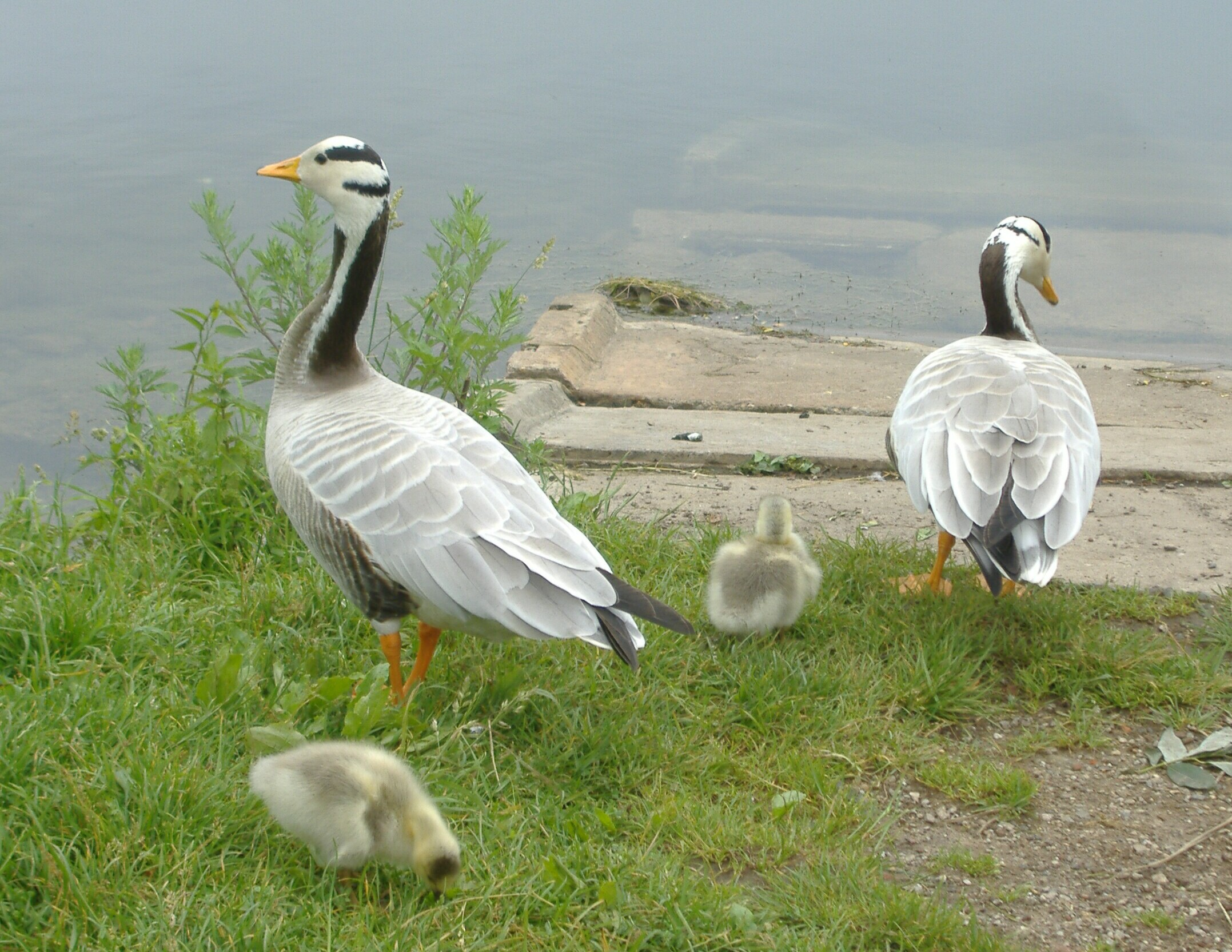 Bar-headed Goose with offspring in the Hoogekampse Plas in De Bilt, the Netherlands.